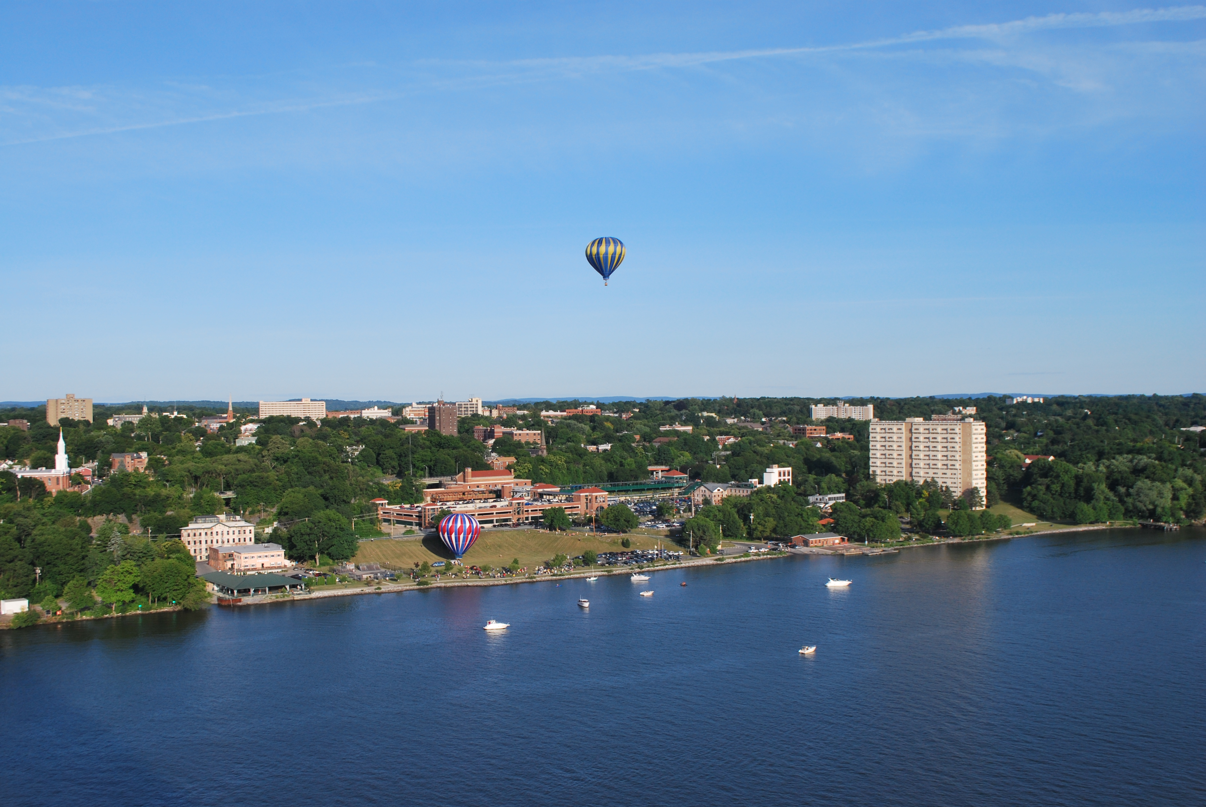 The city of Poughkeepsie, New York along the Hudson River during an evening take-off of two hot-air balloons, as seen from the Walkway Over the Hudson pedestrian bridge.